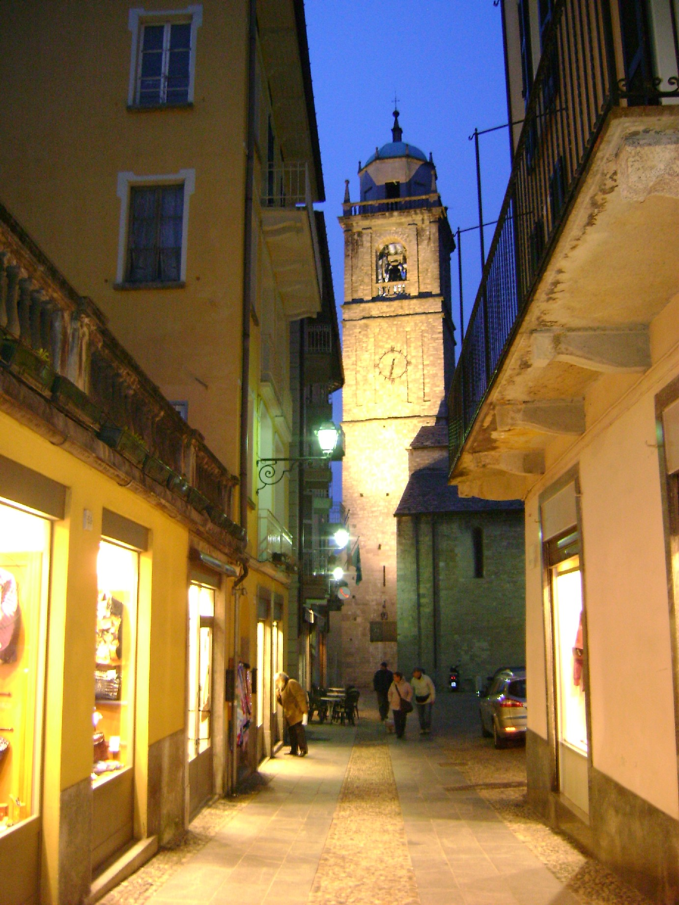 The bell tower of basilica of St. James to Bellagio (province of Como) at night